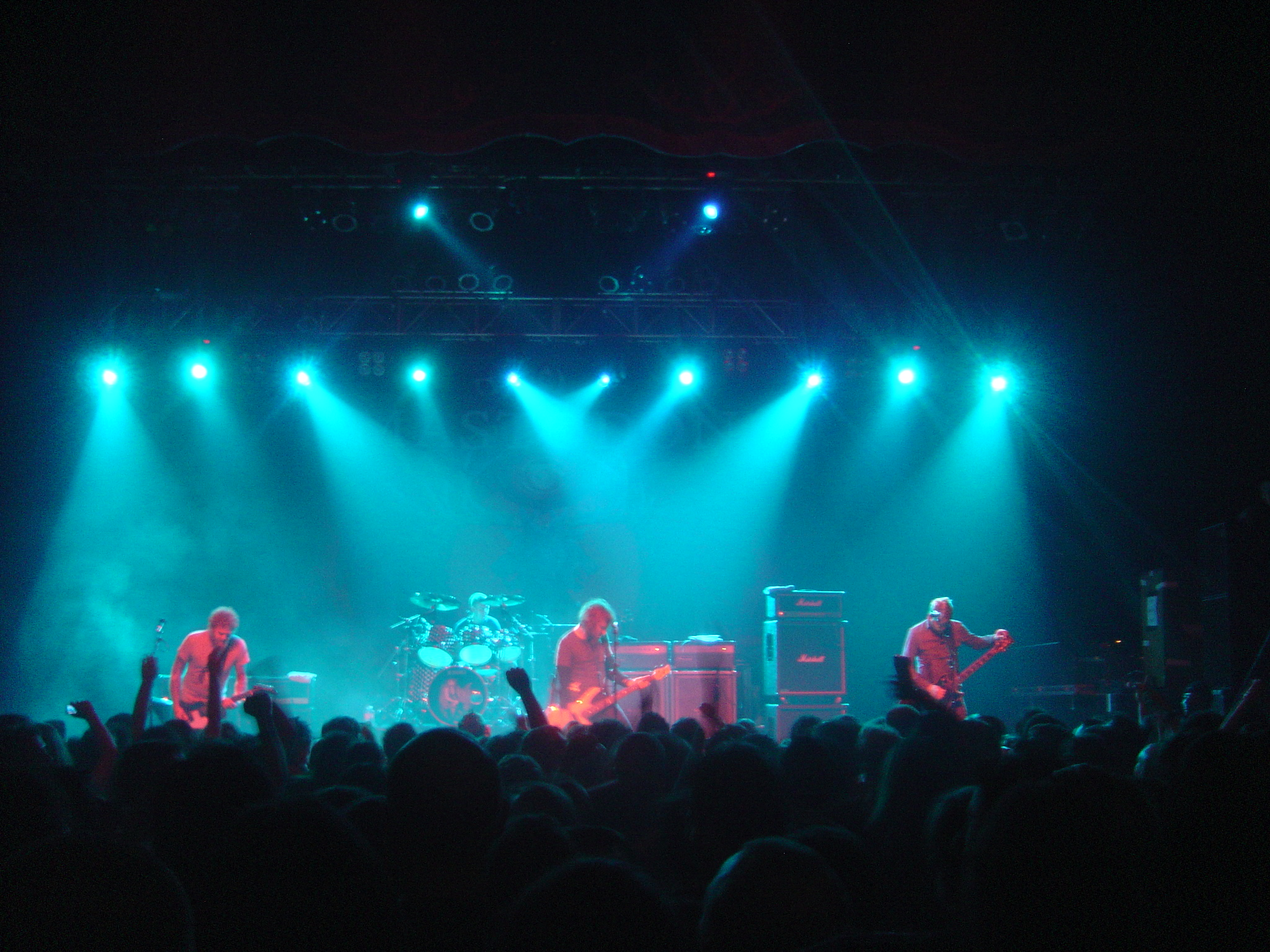 Mastodon live 2007 in London